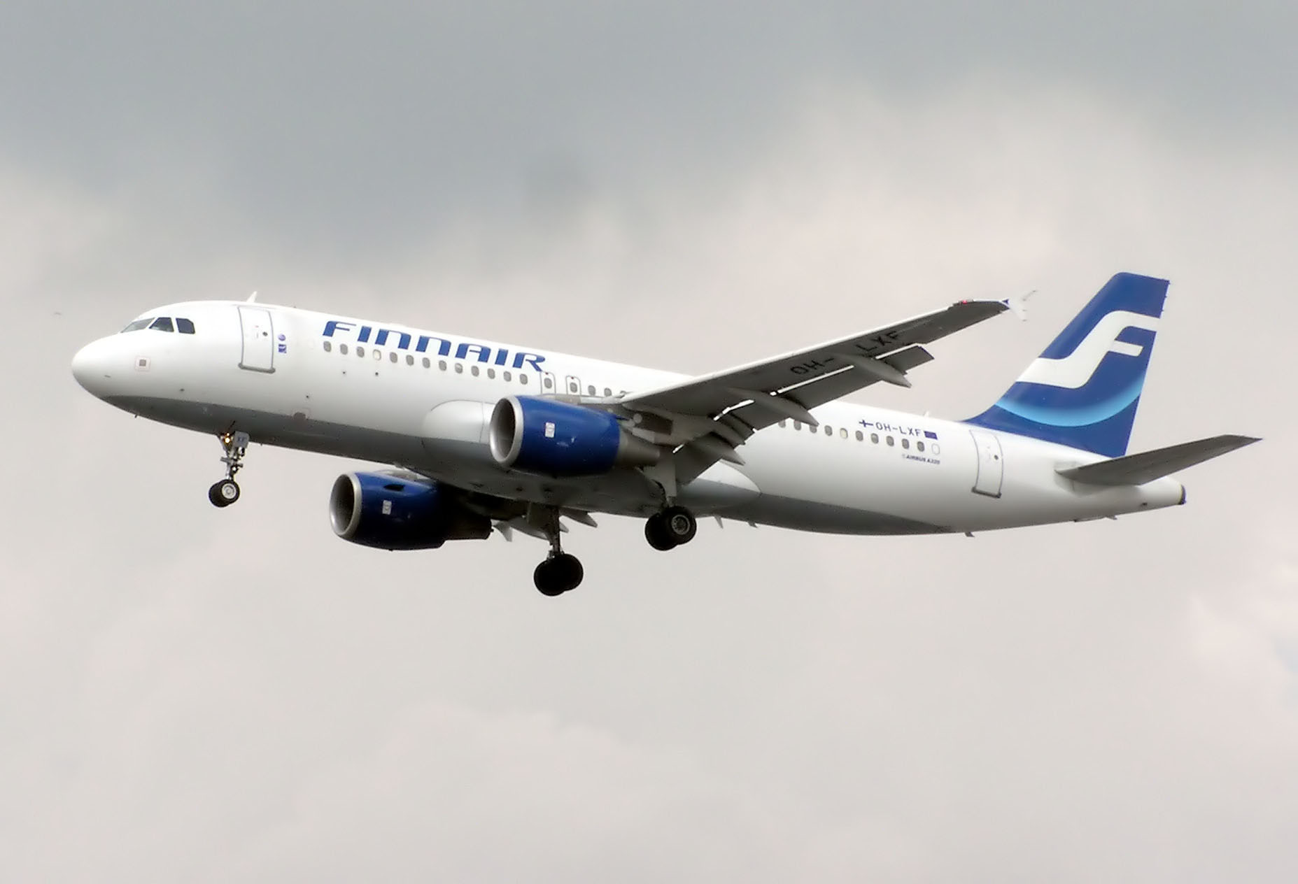 Finnair Airbus A320 landing at London Heathrow Airport